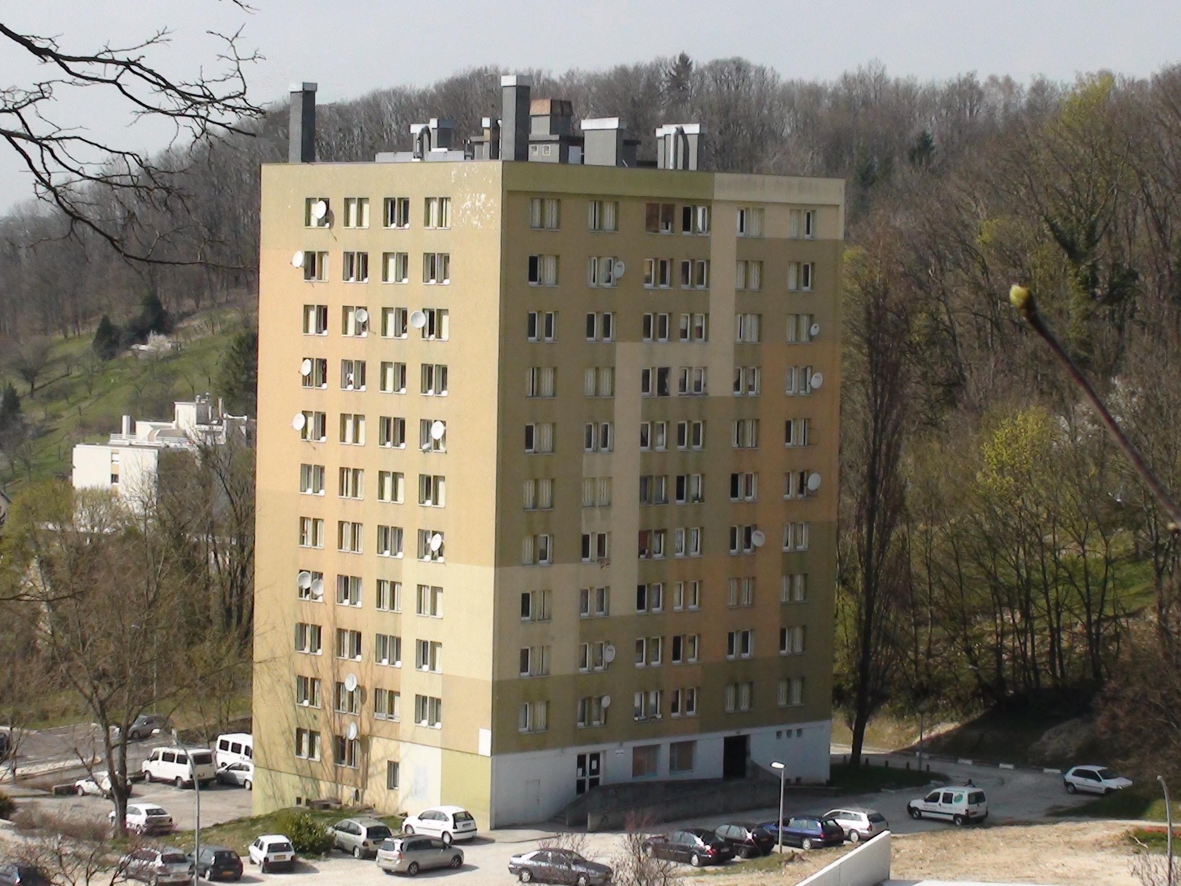 Tower of Clairs-Soleils, area of Besançon (France)